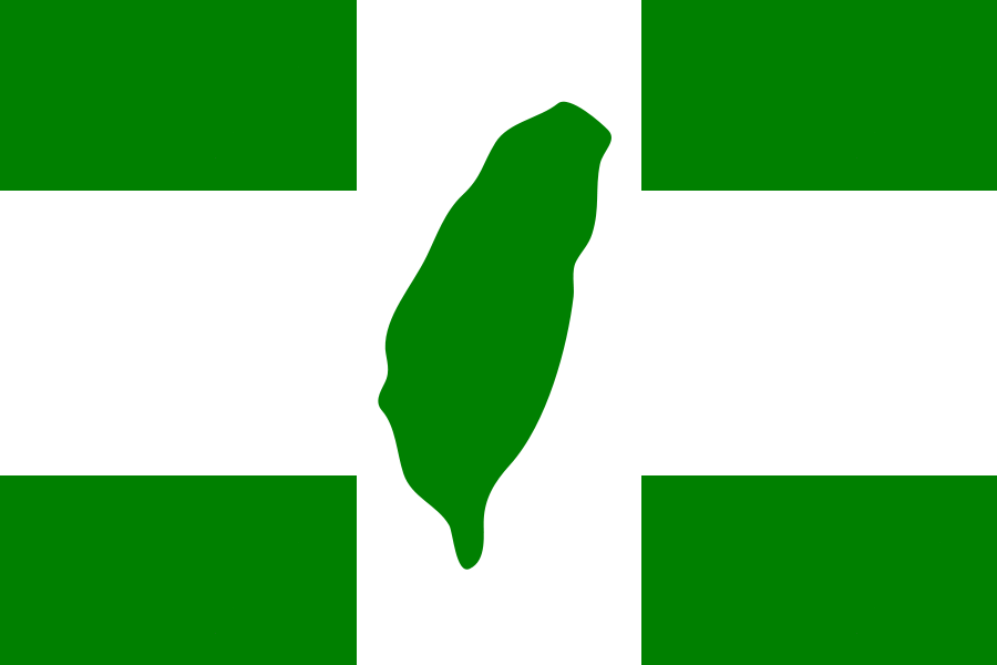 Green Taiwan in White Cross